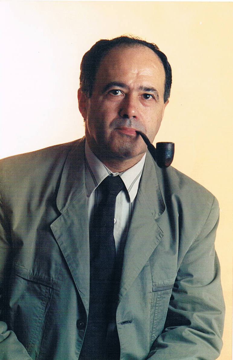 Girona, Catalonia: Francesc Ferrer i Gironès